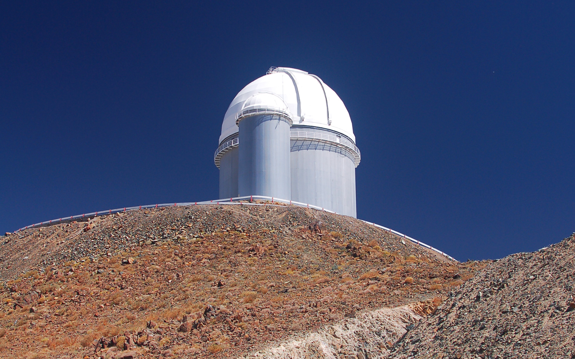 The 3.6-metre telescope at ESO's La Silla observatory from the road. La Silla, in the southern part of the Atacama desert of Chile was ESO's first observation site. The site is set 2400 metres above sea level, providing excellent observing conditions. ESO operates the 3.6-m telescope, the New Technology Telescope (NTT), and the 2.2-m Max-Planck-ESO telescope at La Silla. La Silla also hosts national telescopes, such as the 1.2-m Swiss Telescope and the 1.5-m Danish Telescope.